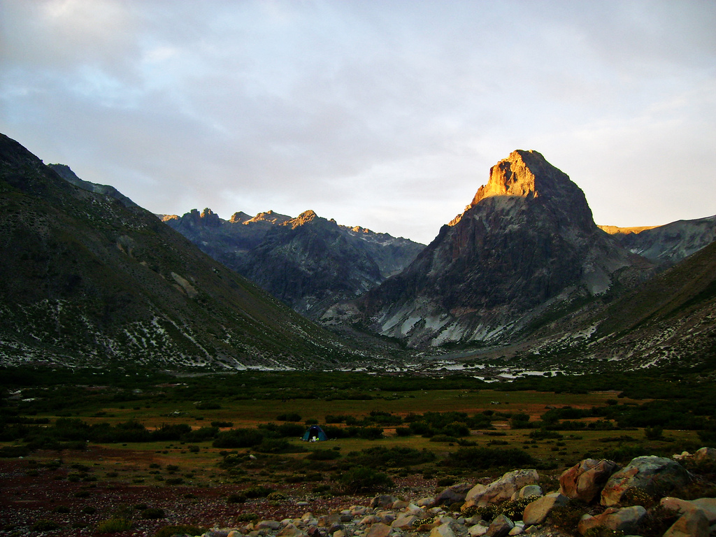 El Bolsón section of Radal Siete Tazas National Park, Chile.